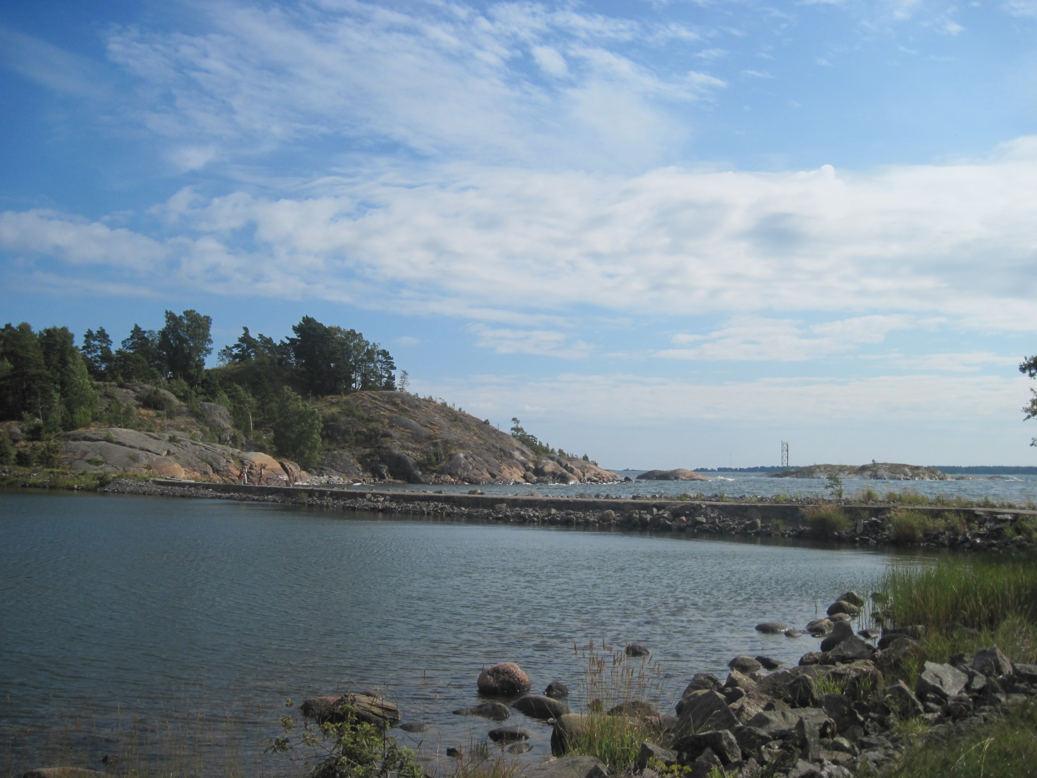 Enbankment between Vallisaari and Kuninkaansaari in Helsinki